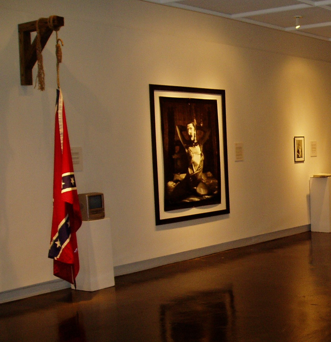 Sims' work at the Crowley, Ringling School